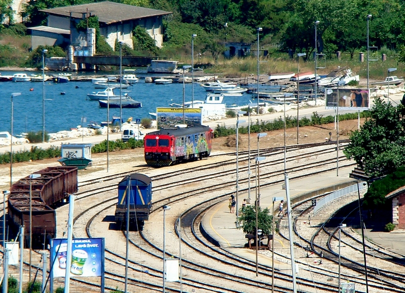 Pula railway station autumn